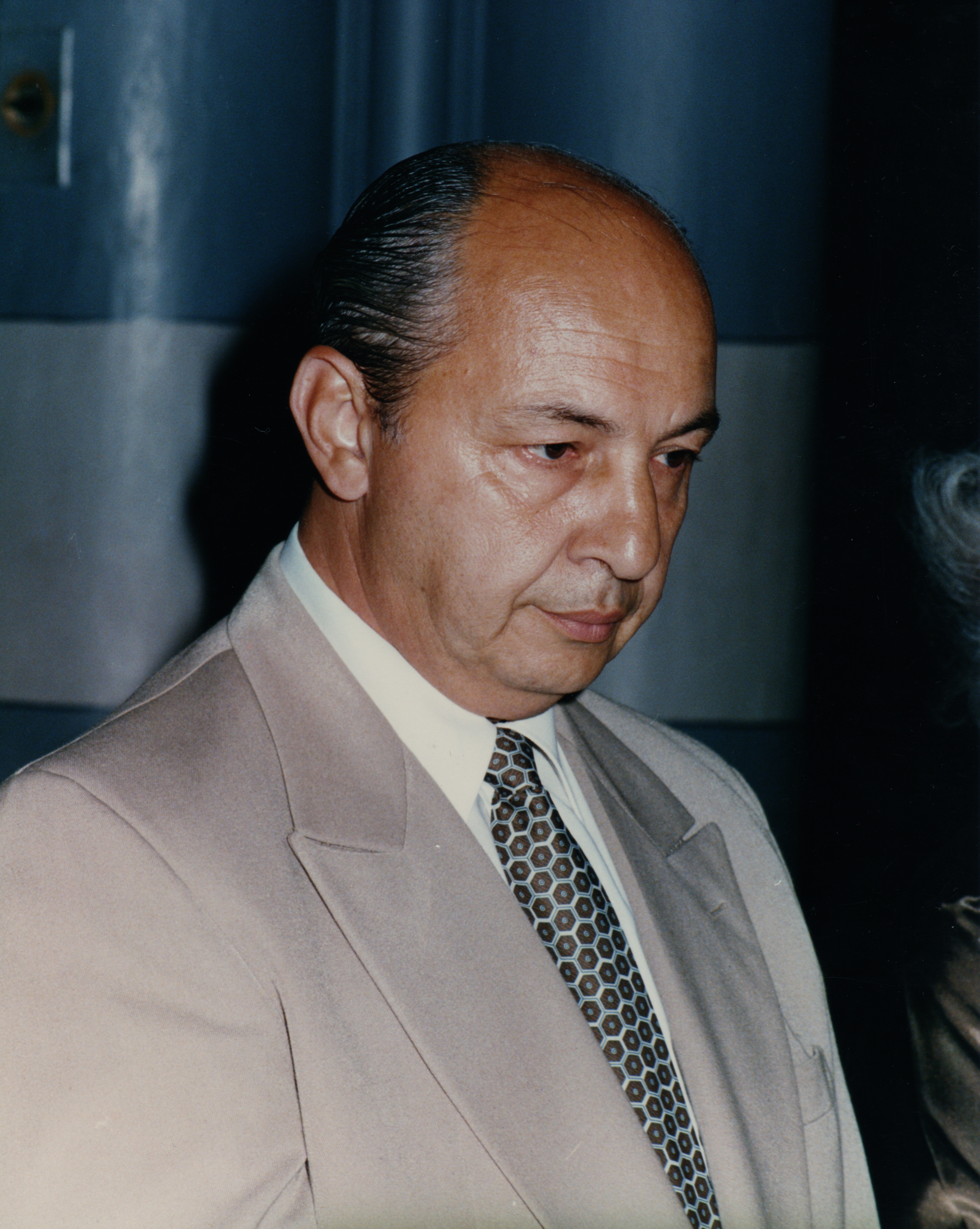 Biography Alejandro Iaccarino